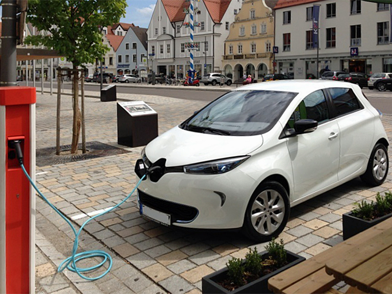 Renault Zoe all-electric car charging at a on-street charging station